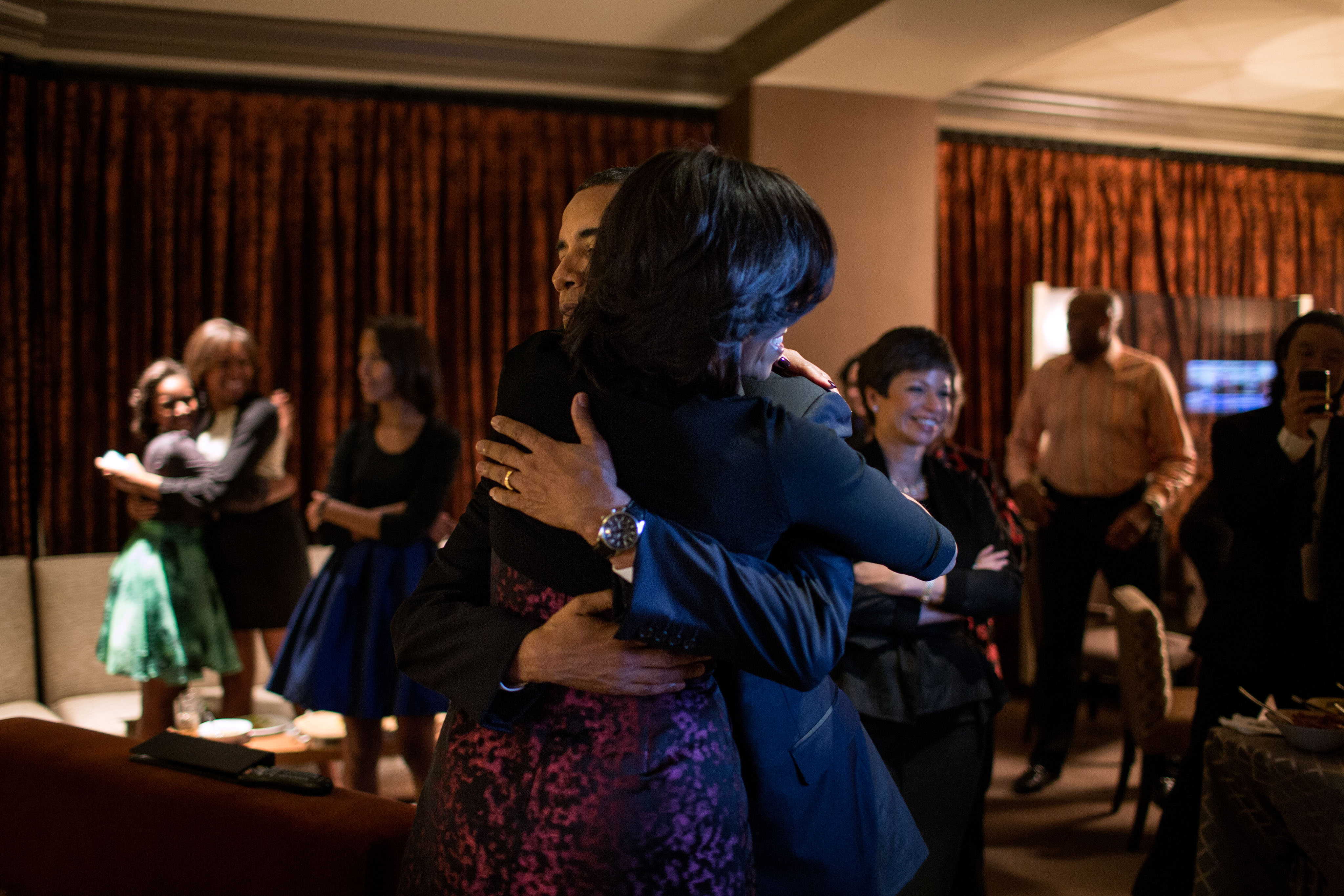 United States President Barack Obama embraces his wife upon his re-election to the White House on 6 November 2012. The Obama family and close friends were watching election results at a Chicago hotel. The President had warned everyone that it could be a very late night. Yet, only a few minutes later, the networks projected that he had been re-elected, and the President embraced the First Lady, while in the background, daughter Sasha hugged one of her cousins.